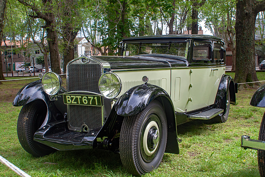 1932 Delage D8, with Lalique eagle's head mascot, at San Isidro, Buenos Aires